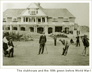 Royal Ostend Golf, clubhouse